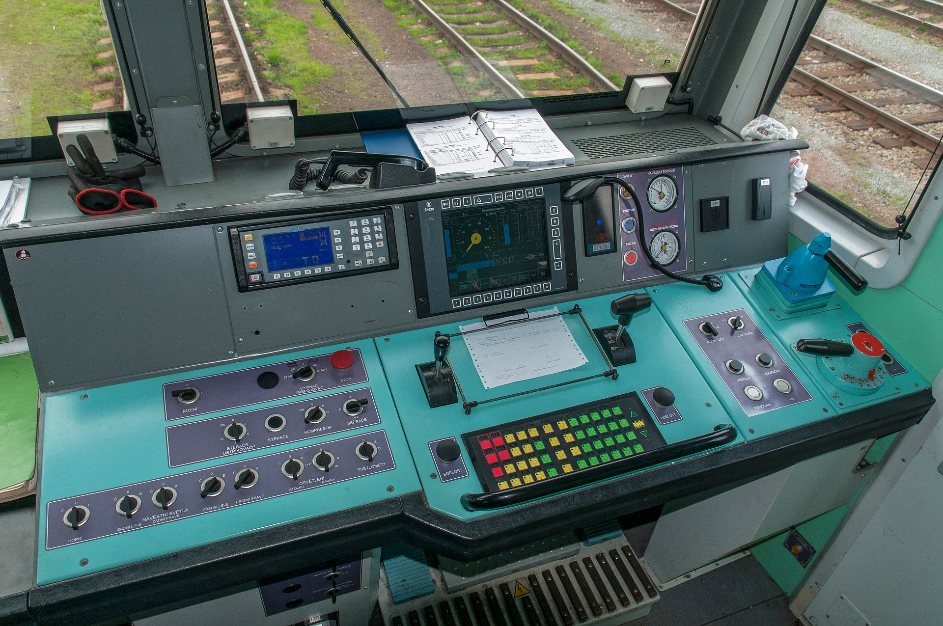 Driving cab of the electrically-powered locomotive class 363.5 of ČD Cargo